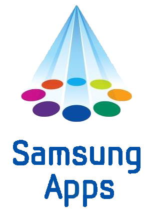 Samsung Apps Logo